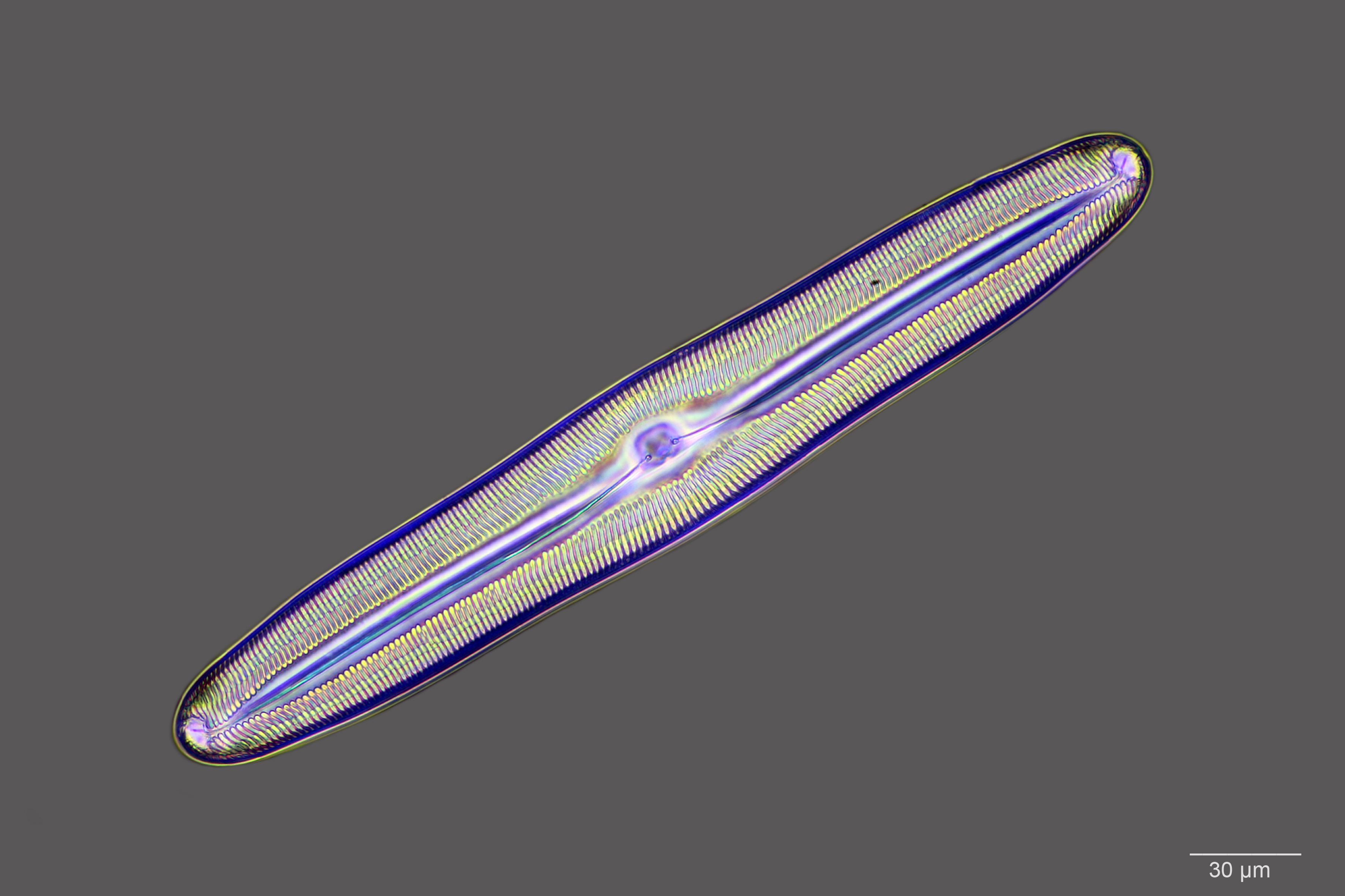 Diatom Frustule Pinnularia major (Kützing) Rabenhorst Light microscopy, variable phase contrast